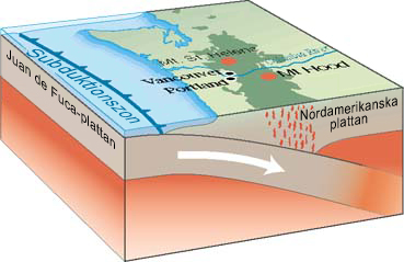 Subduction process of the Juan de Fuca Plate in Oregon, USA as a cutaway graphic